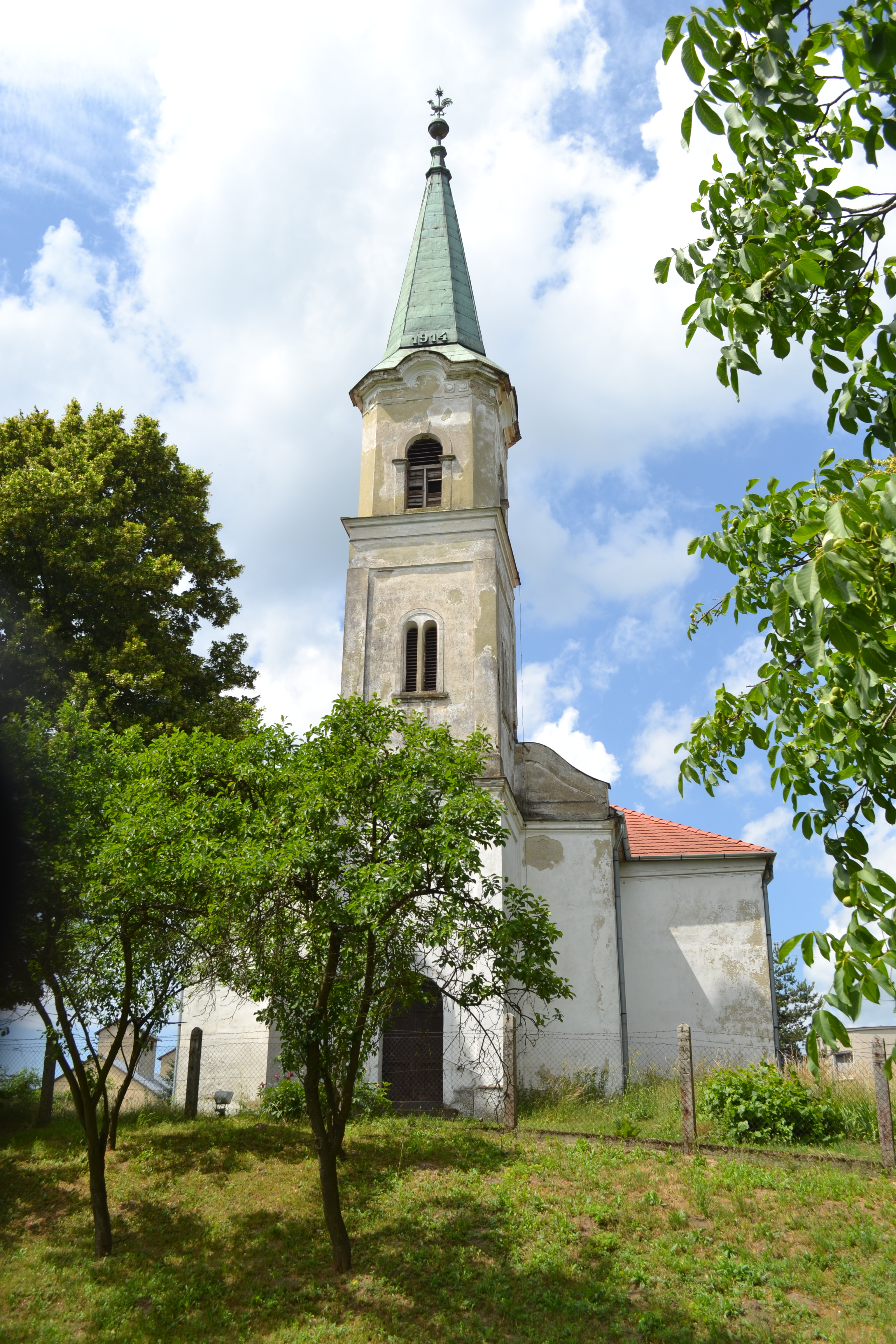 The Reformed Church in Jesenské